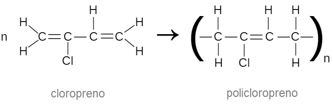 the policloropreno's reation